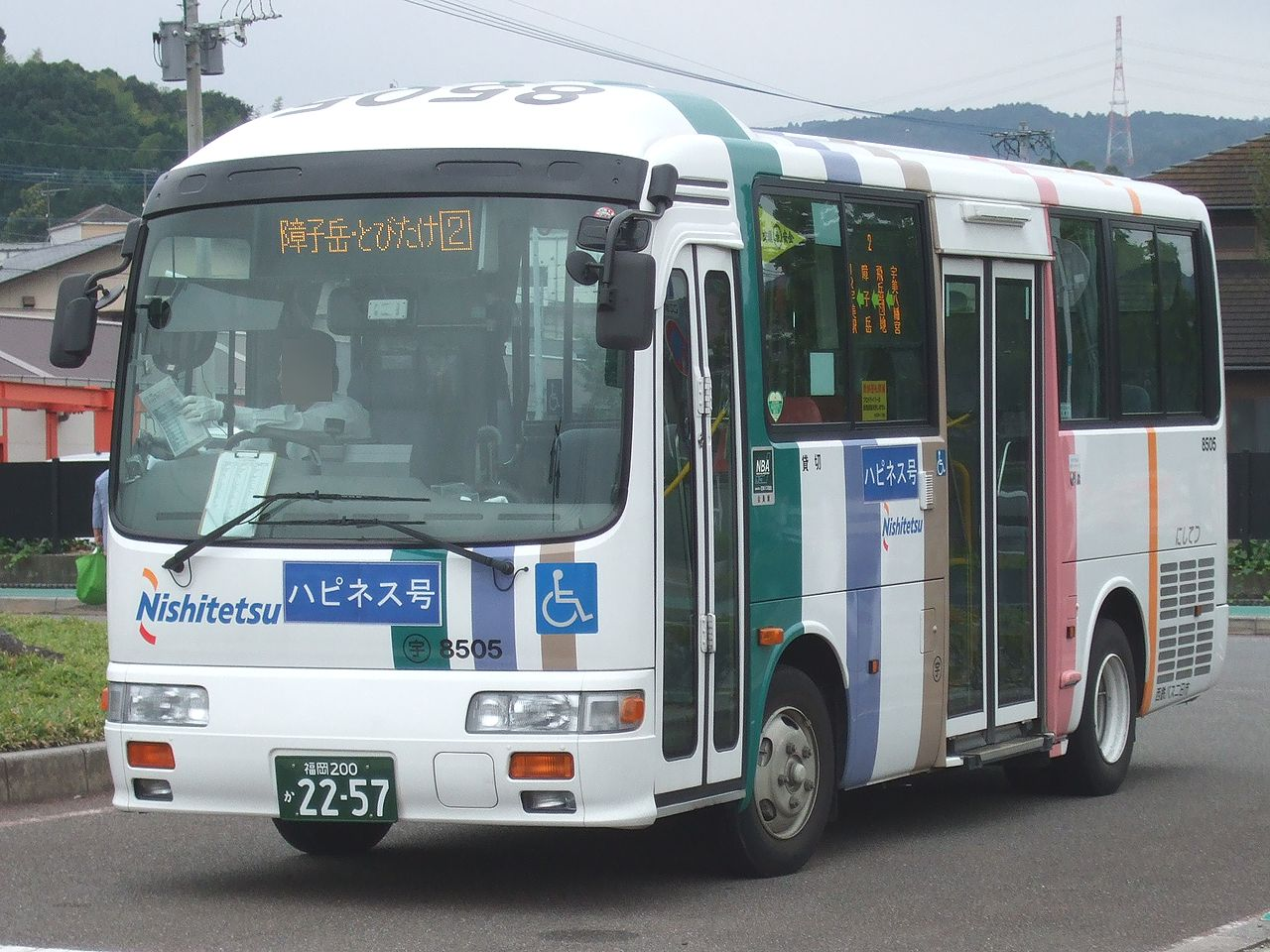 Nishitetsu Umi Town community bus “Happiness-go” 西鉄バス 宇美町コミュニティバス「ハピネス号」